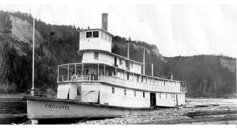 Photographer:Unknown Photo Taken:1914 Source:#P9831234 [1]